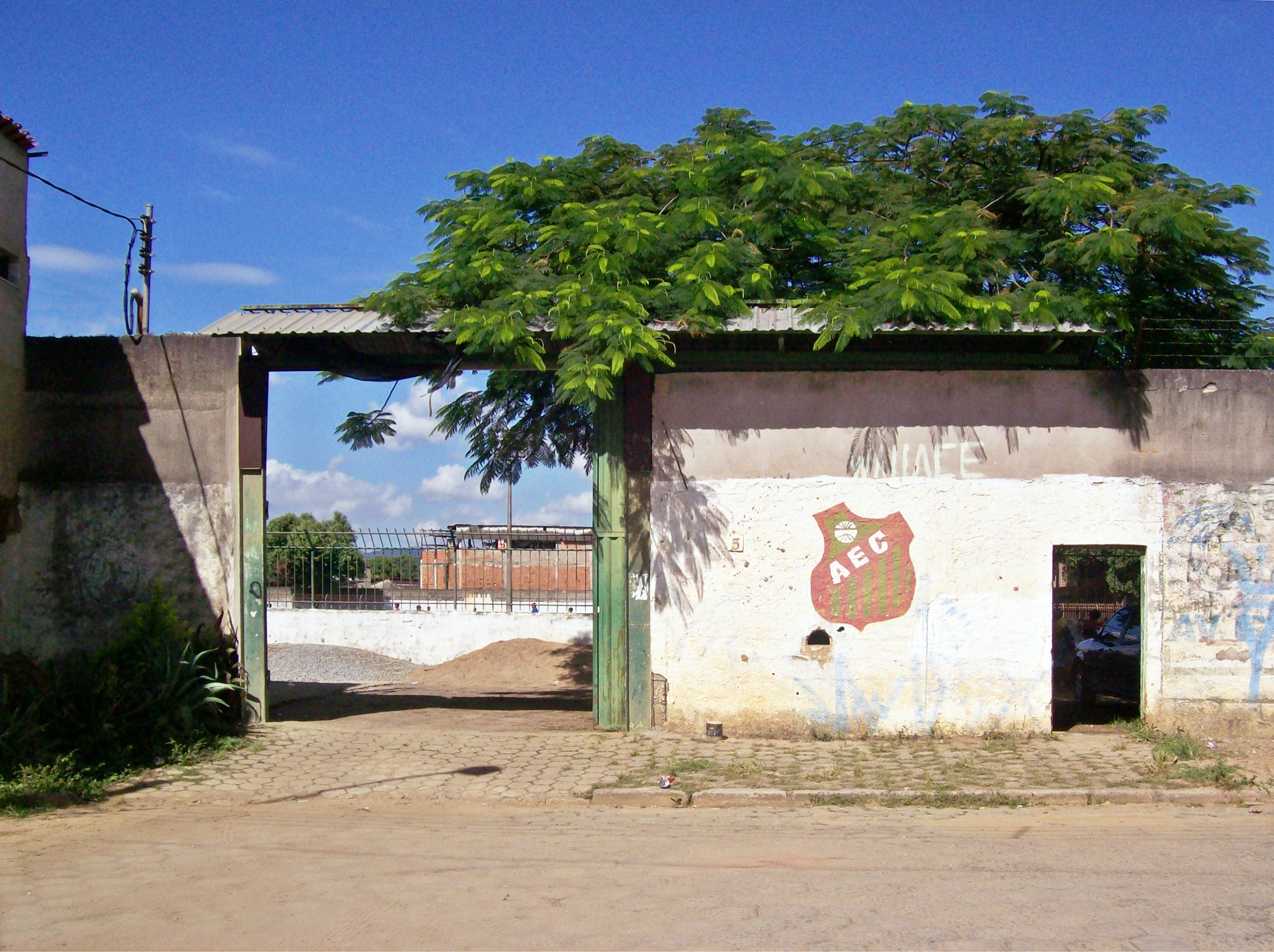 Main entrance of the Josemar Soares Stadium, in Coronel Fabriciano, Minas Gerais, Brazil.